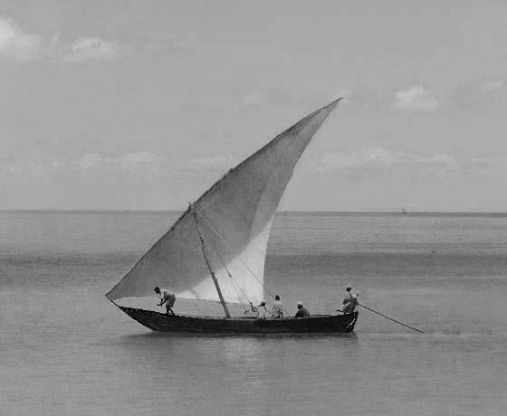 Yemenise Zarug - one of the types of Dhow